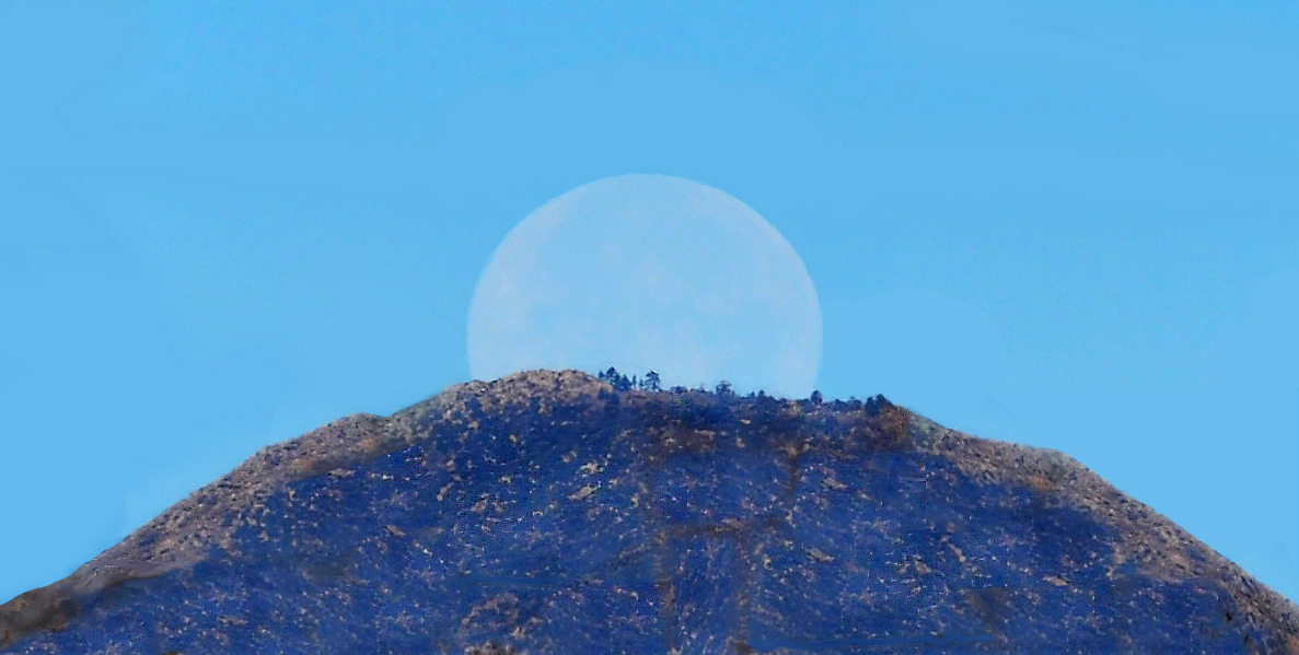 As the full Moon sets behind San Gorgonio Mountain on a midsummer morning, it appears to be almost transparent.